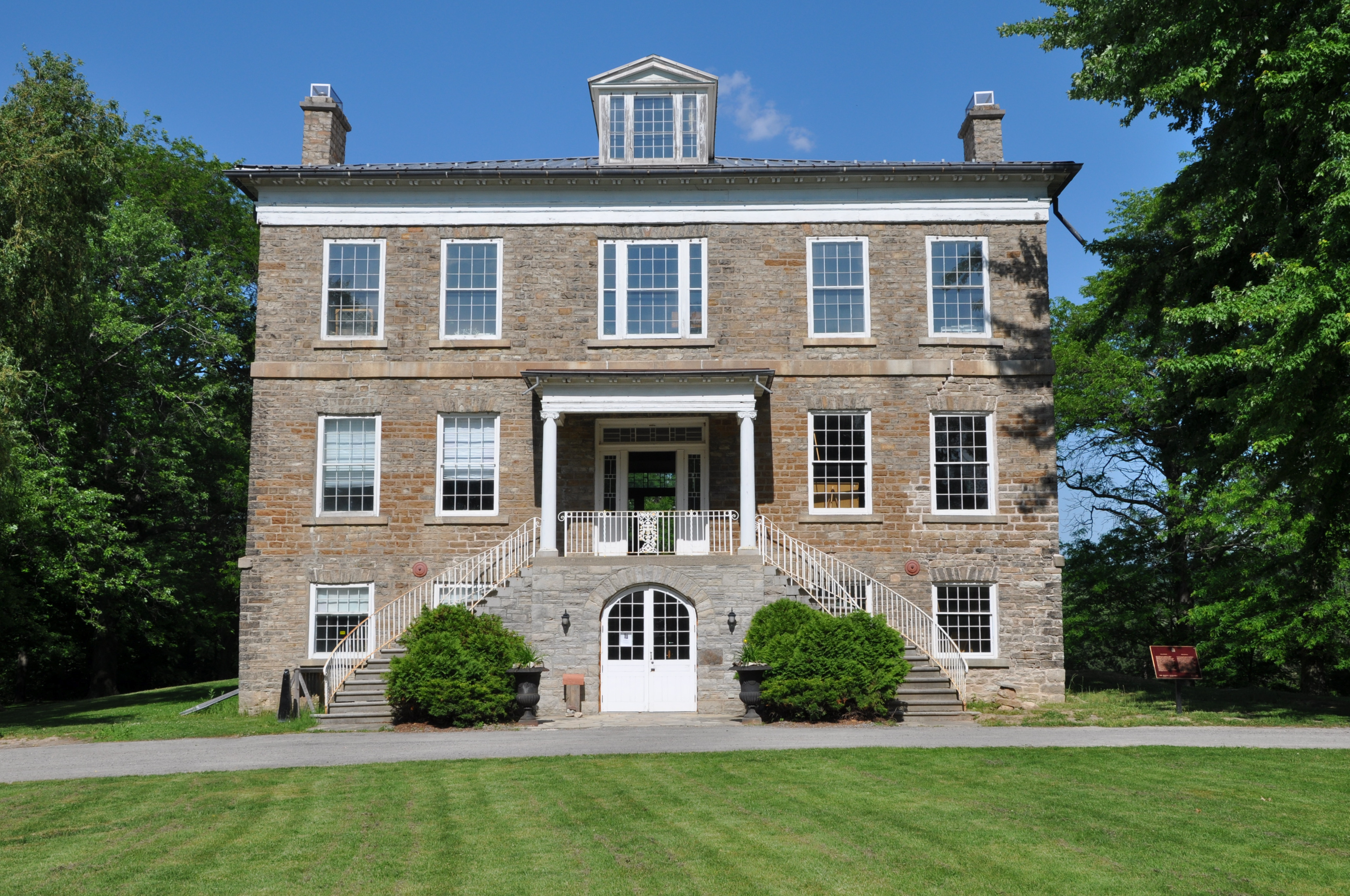 Willowbank Estate front facade.